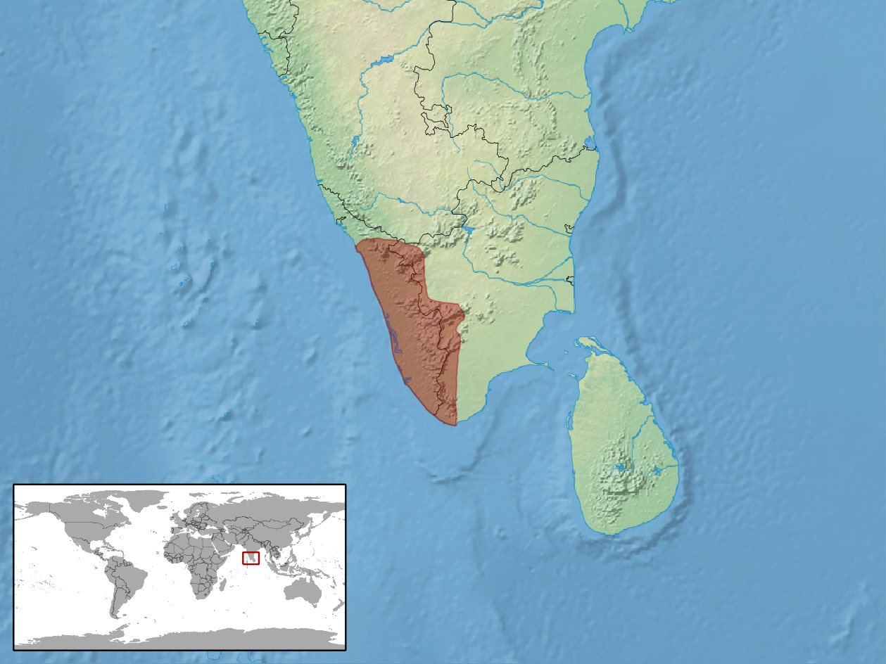 geographic distribution of Calotes ellioti (Native: India)